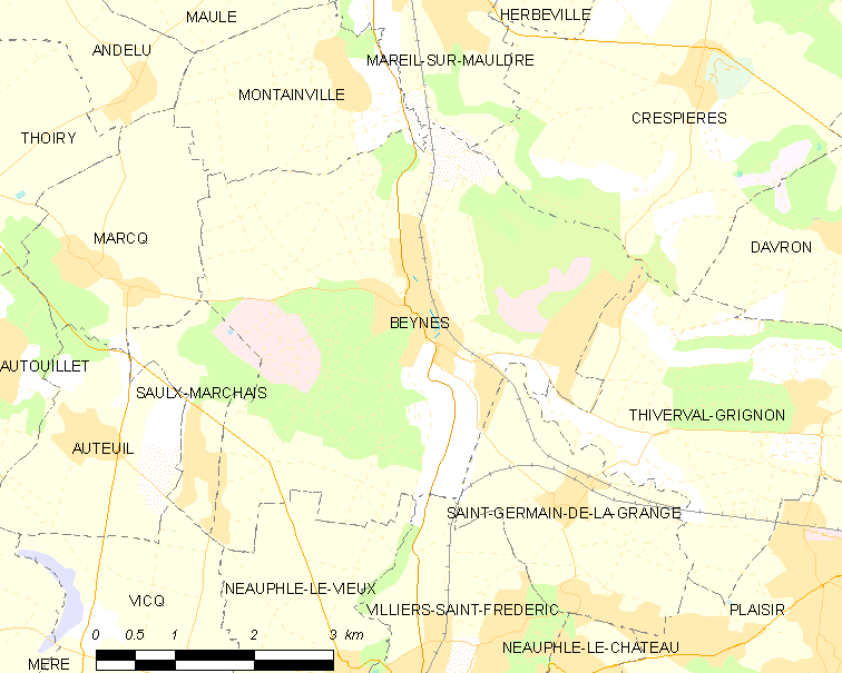 Map of French municipality Beynes